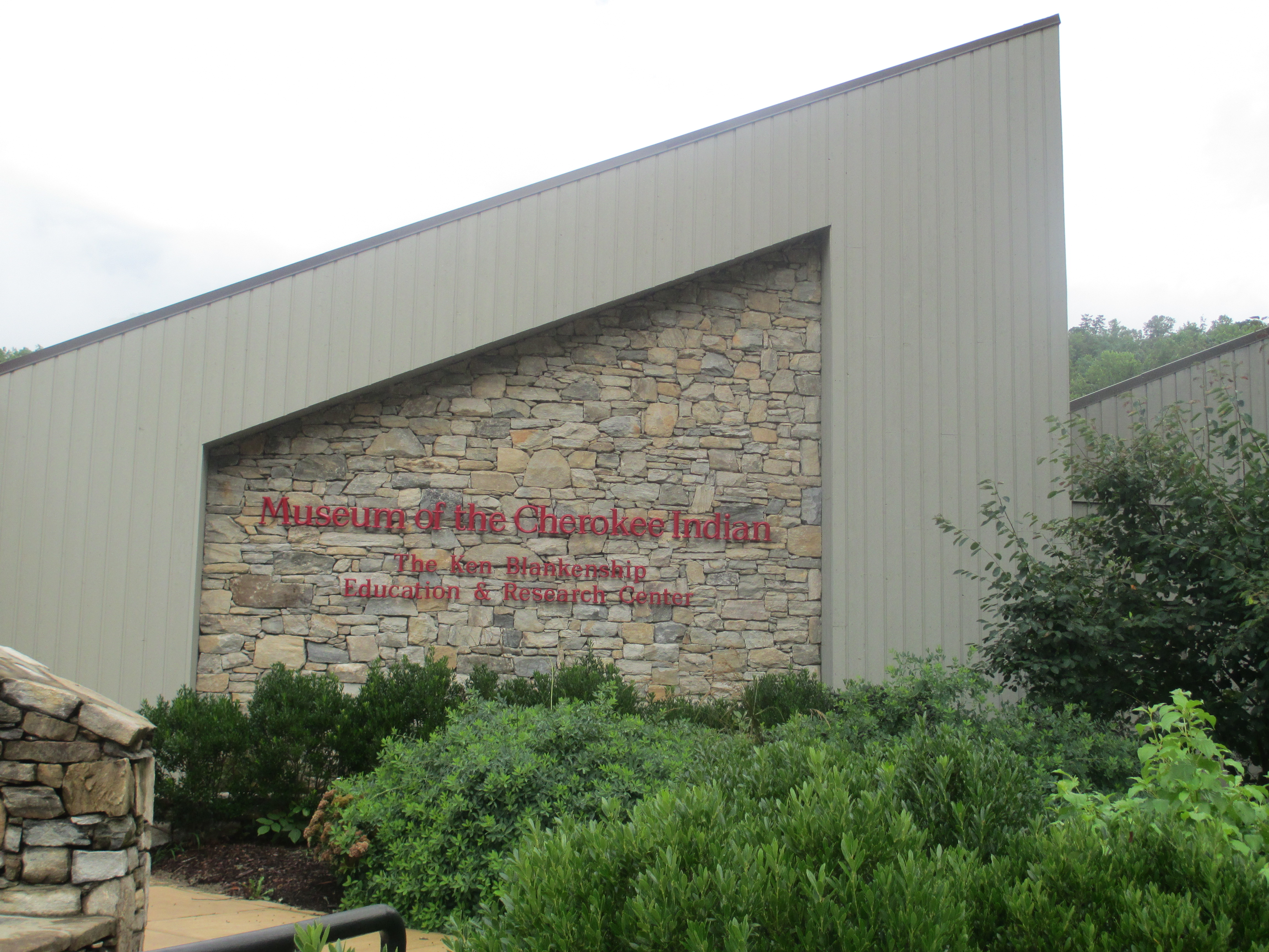 I took photo of Museum of the Cherokee Indian with Canon camera.